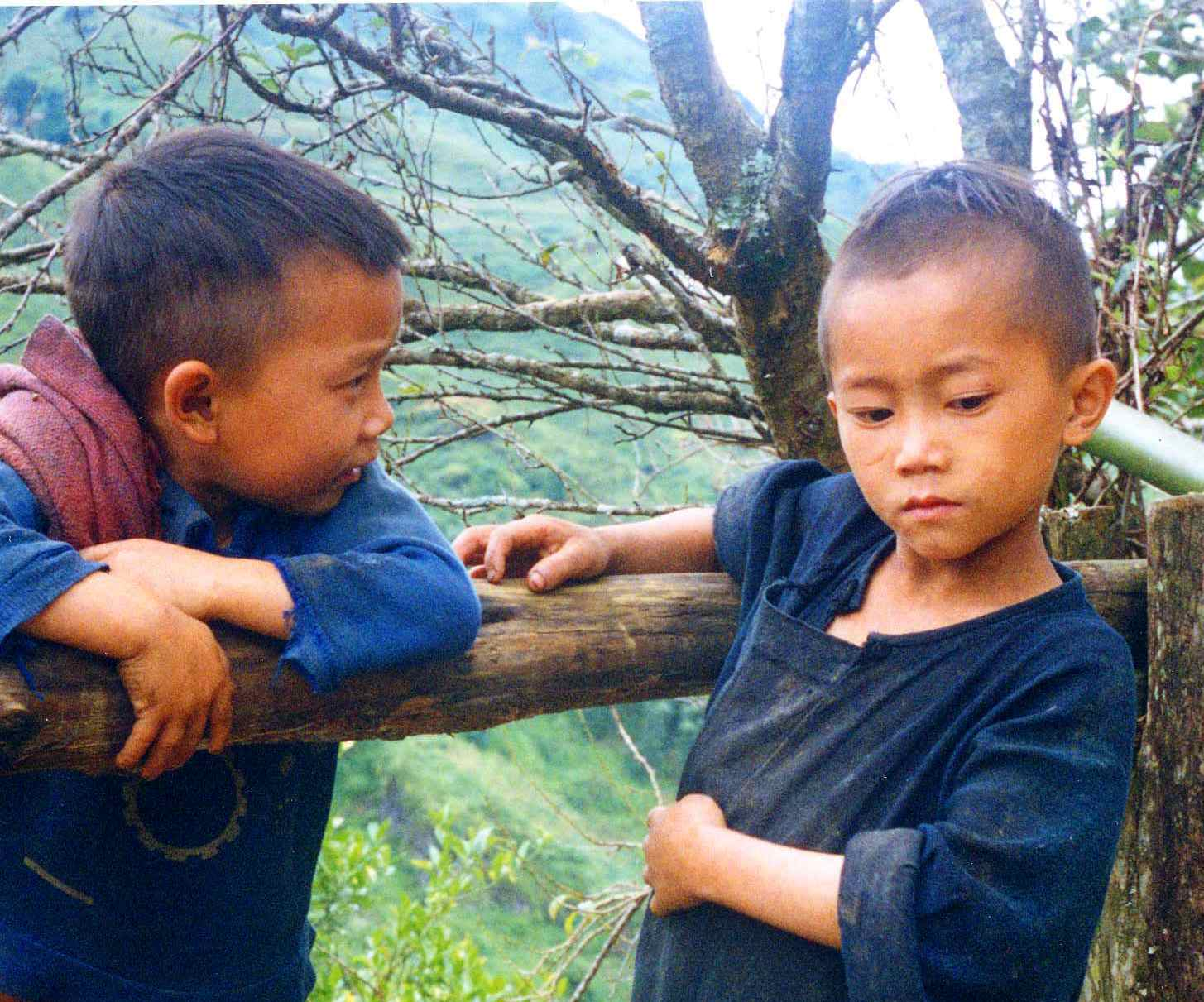 Hmong minority children in Sa Pa (Viêt-Nam)